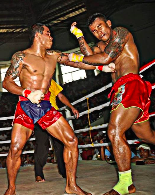 Tway Ma Shaung fighting Saw Shark at Thein Phyu Stadium in Yangon, 2009